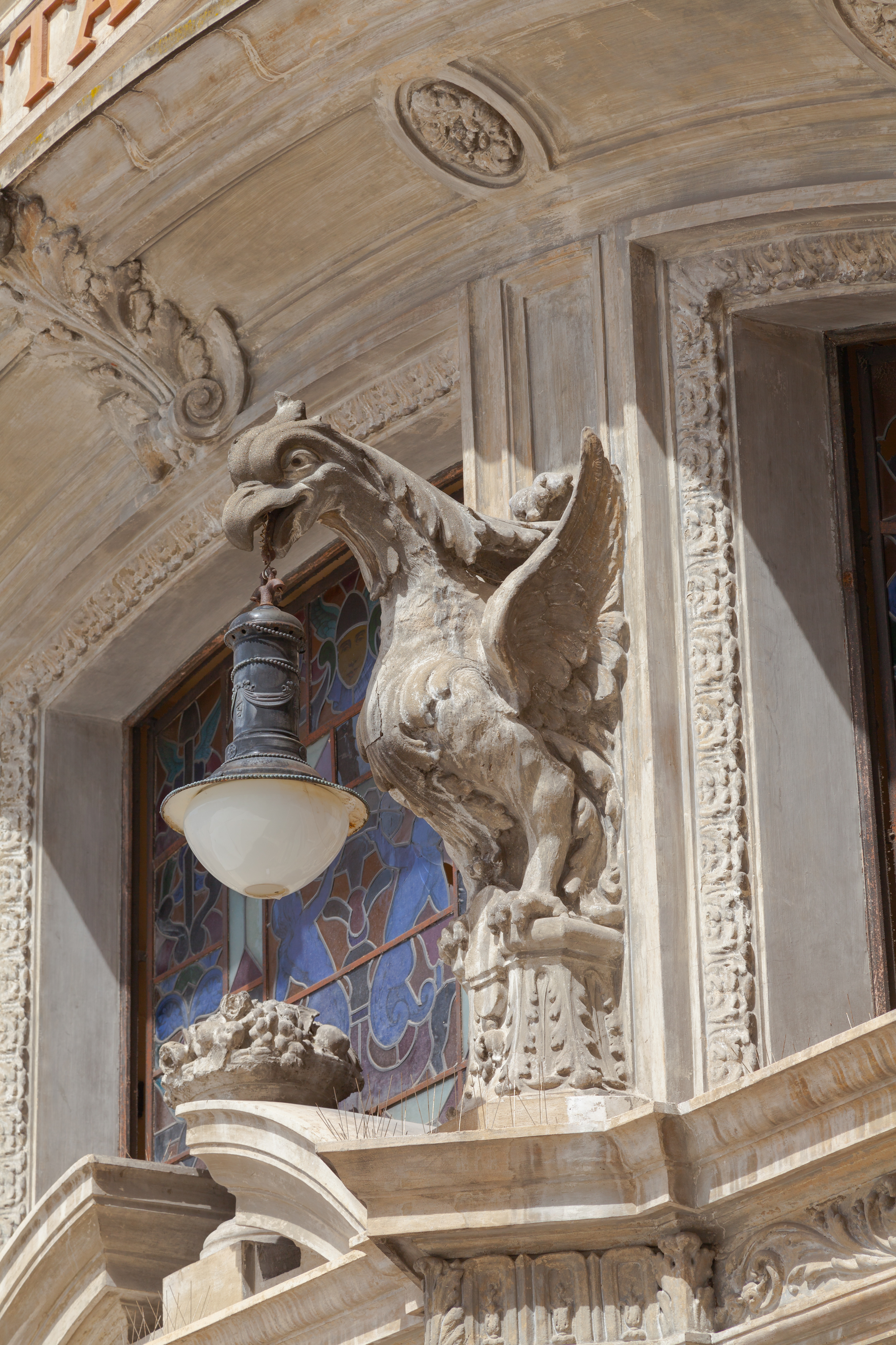 Light over the entrance of Café Santa Cruz, Coimbra, Portugal